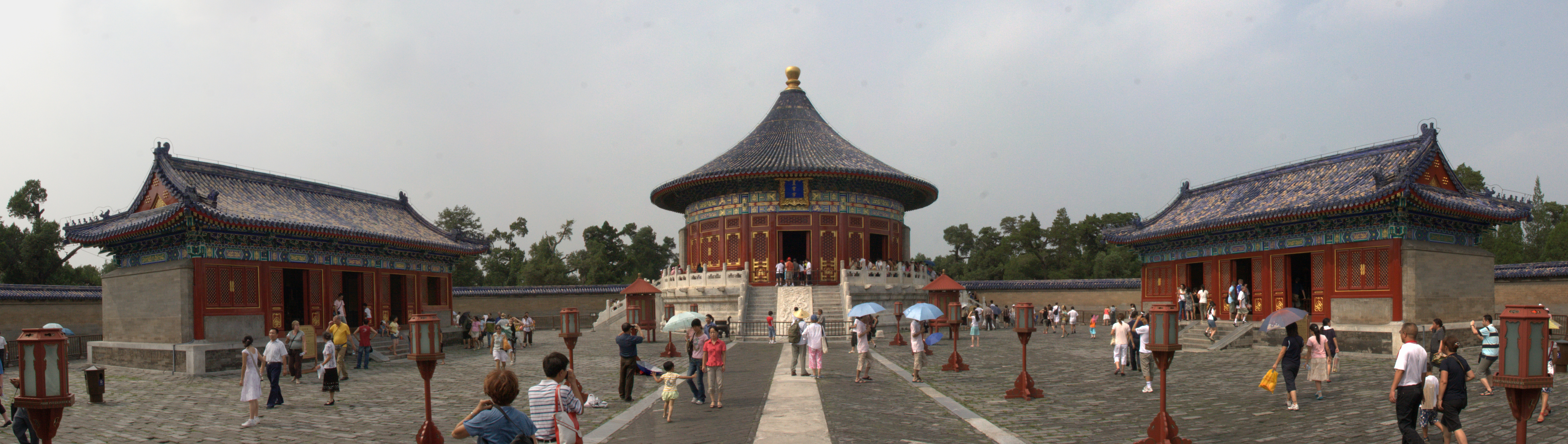 Temple of Heaven, Beijing, China